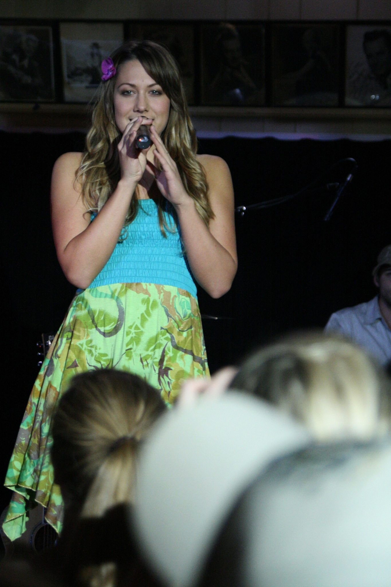 Colbie Caillat @ The Malibu Inn on October 26, 2007 on PCH.